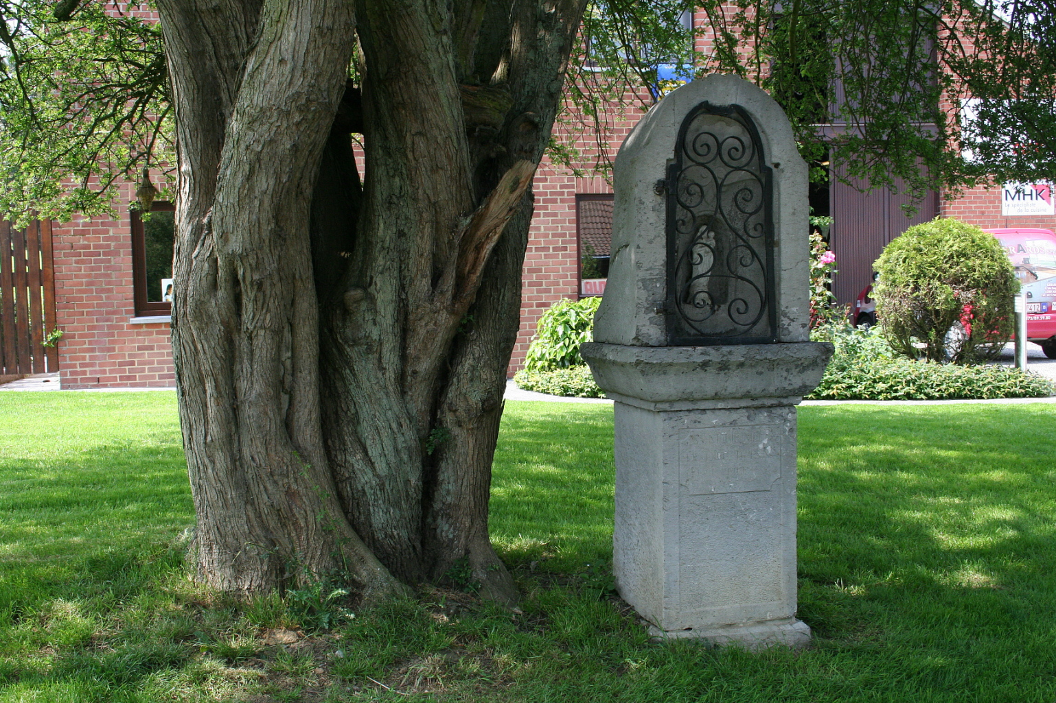 Joncret (Belgium), the chapel dedicated to the Holly Virgin by J.J. Piret (1870) and its remarkable hawthorn.